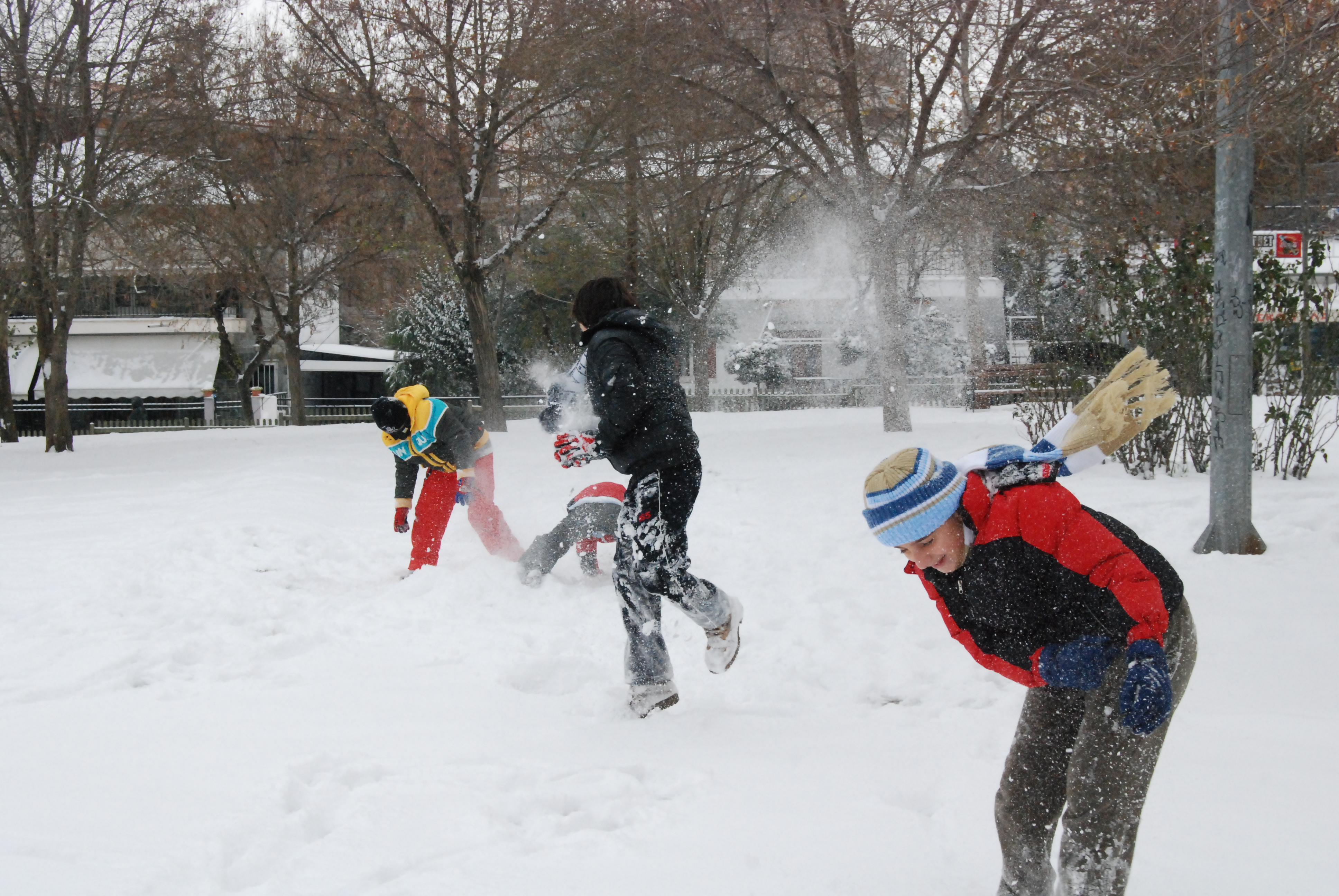 Snowball fight in a park.